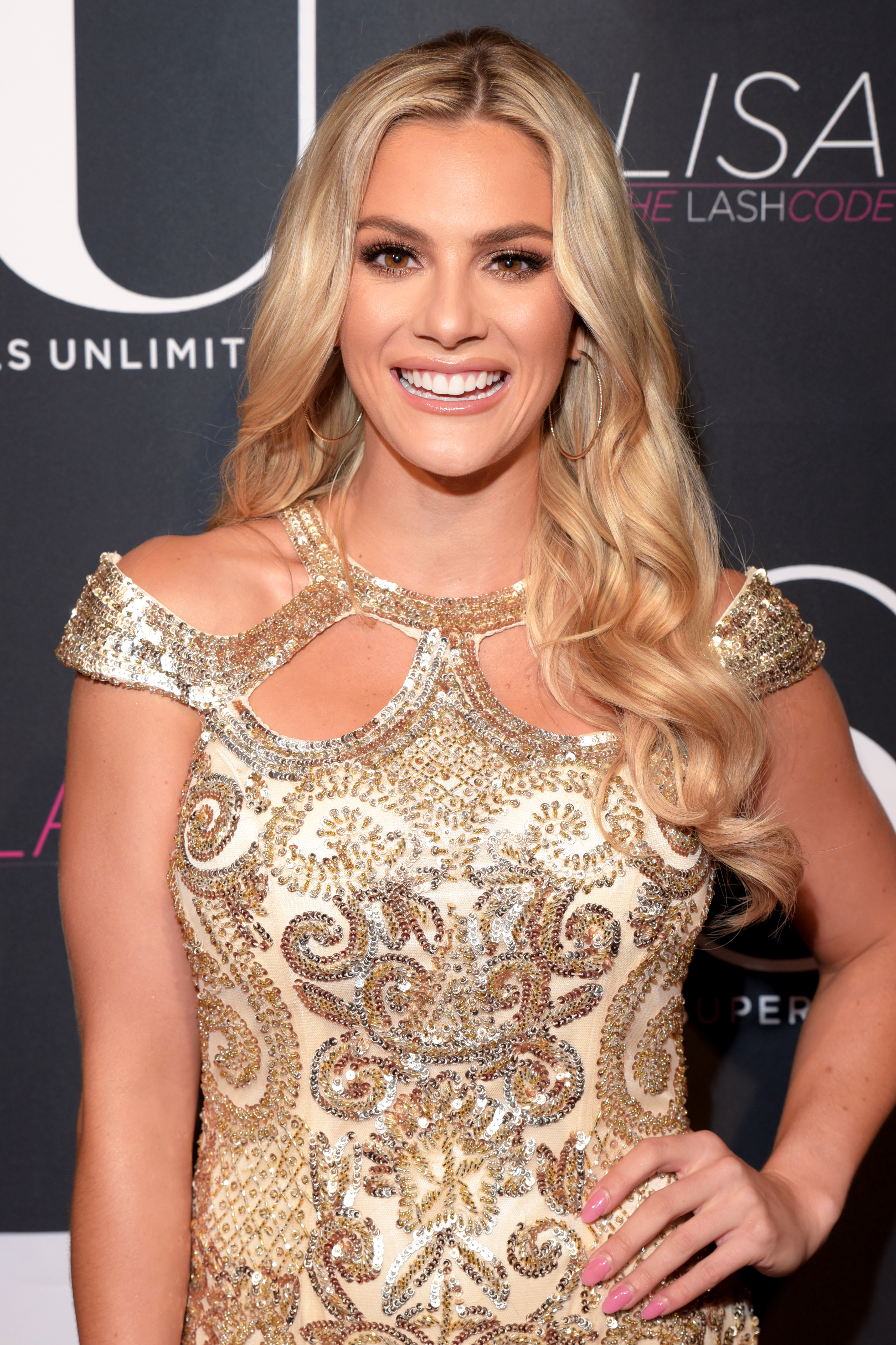 Sarah Rose Summers, Hollywood California on October 13, 2018 - Photo by Glenn Francis of